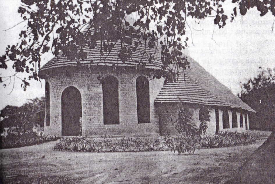 The church at the CMS mission station in Akot, South Sudan, now destroyed